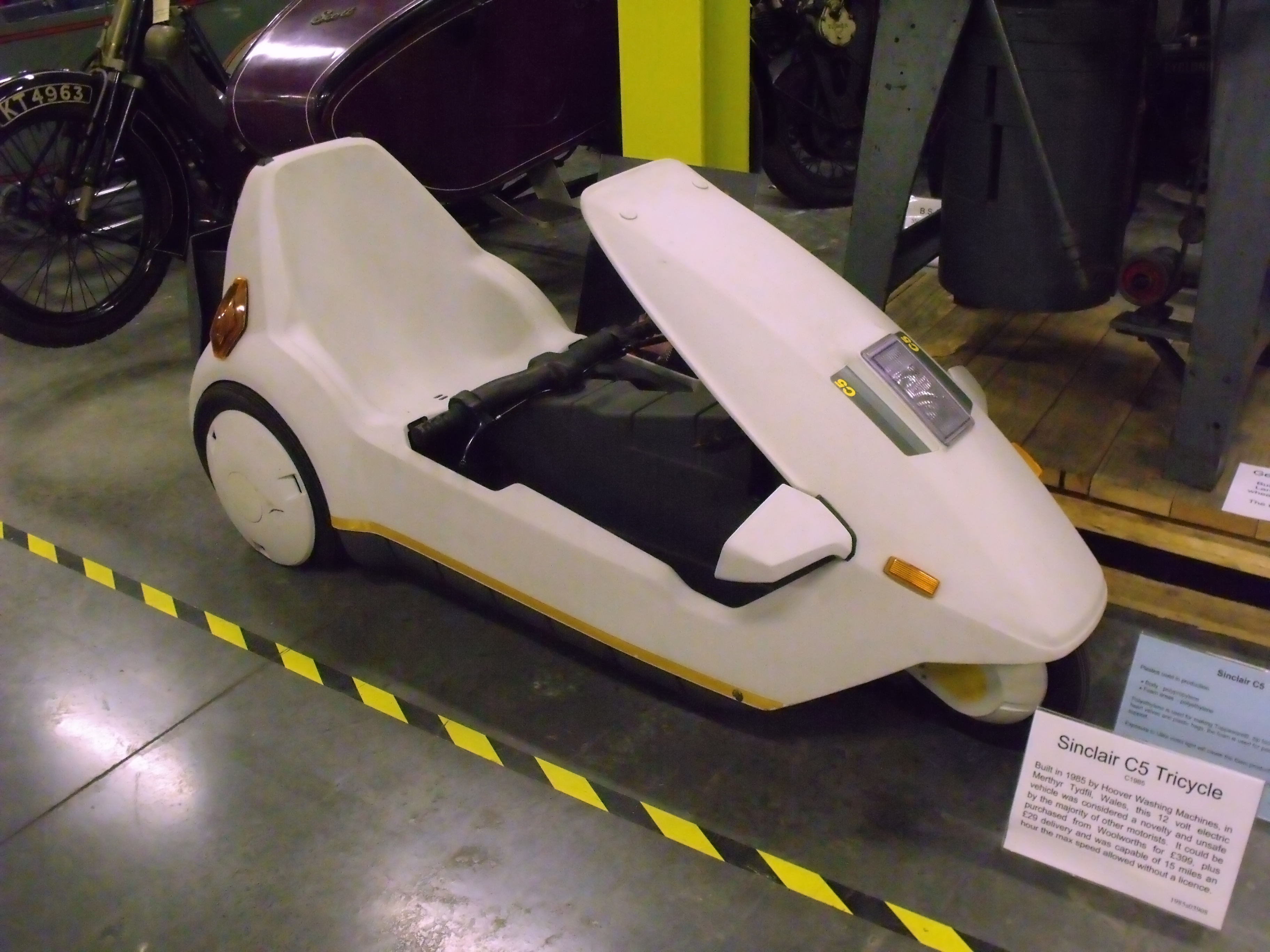 I went to the Open Day at the Museum Collections Centre - 25 Dollman Street on the 13th of May 2012. At the Dollman Street Stores they have objects that are not currently on display in the Birmingham Museum & Art Gallery or Think Tank. Some items used to be in the old Museum of Science & Industry on Newhall Street. The garage area of the warehouse with old cars, motorbikes etc. Sinclair C5 Tricycle C1985 Built in 1985 by Hoover Washing Machines, in Merthyr Tydfil, Wales, this 12 volt electric vehicle was considered a novelty and unsafe by the majority of other motorists. It could be purchased from Woolworths for £399, plus £29 delivery and was capable of 15 miles an hour the max speed allowed without a licence.